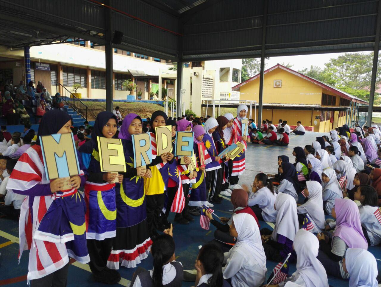 Murid-murid Tahap 2